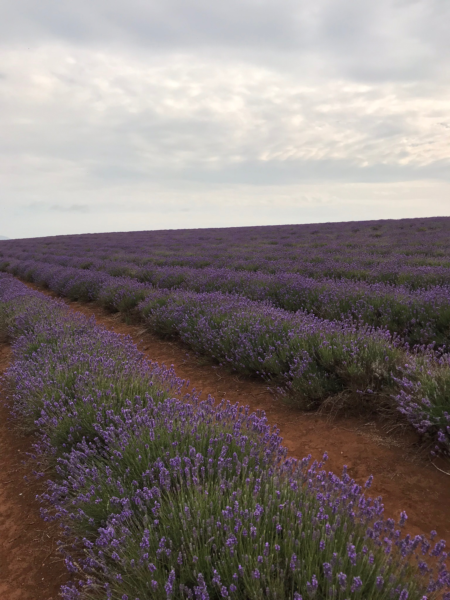 A portrait shot of a section of the lavender field at Bridestowe Lavender Estate in Tasmania.